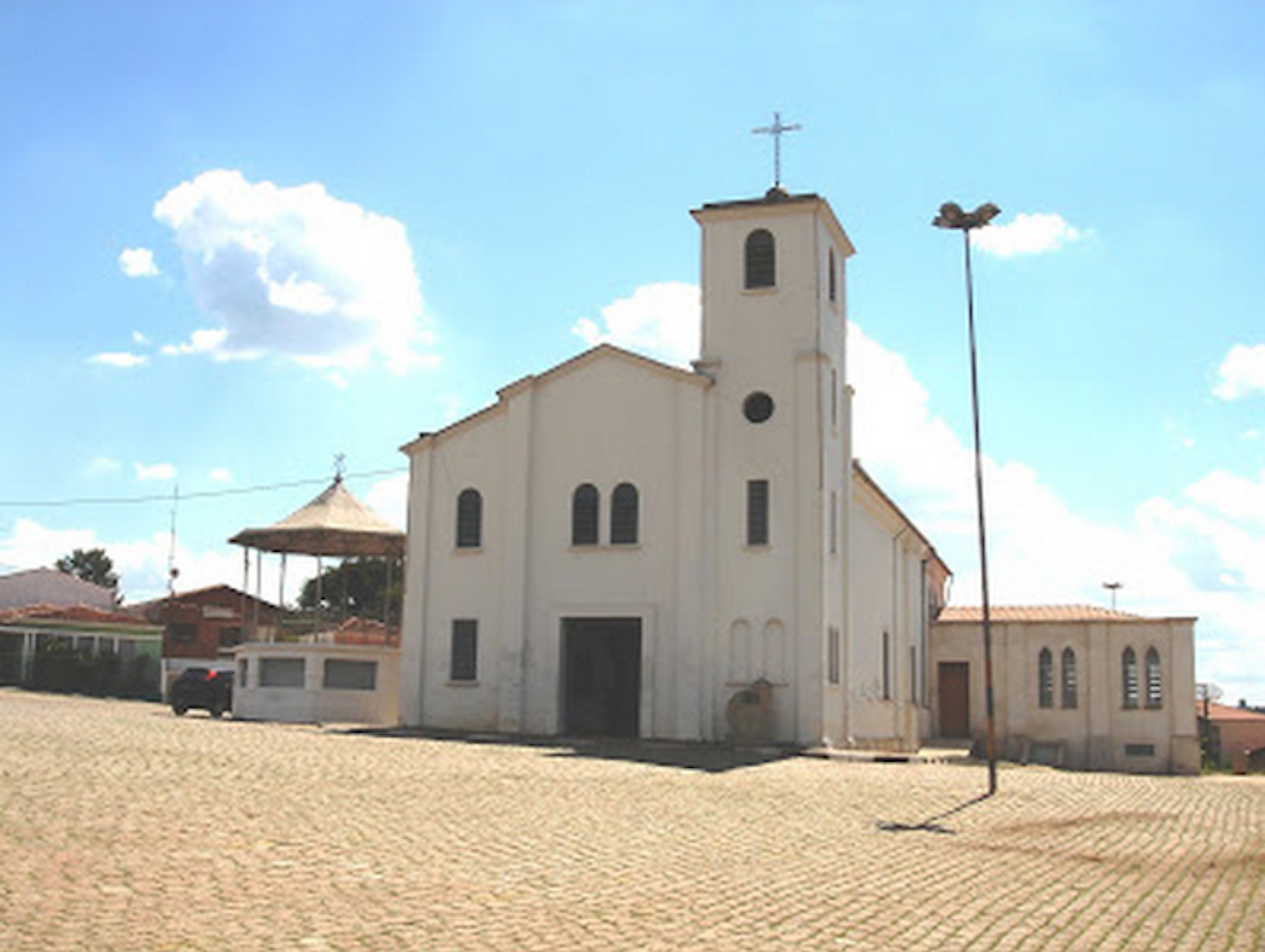 capela de São Benedito em Itapira, SP